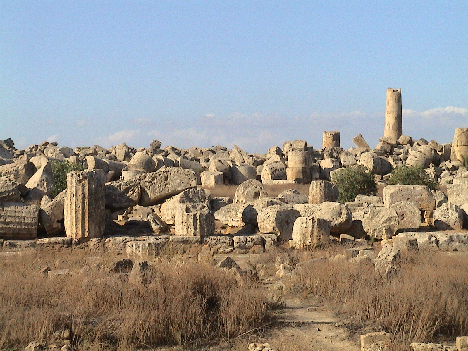 Temple F in the foreground and Temple G in the background.